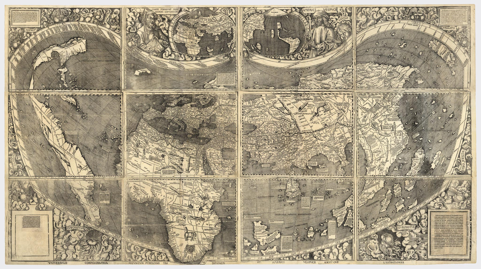 Carte du monde Universalis Cosmographia, 1507; by German Cartographer Martin Waldseemüller)